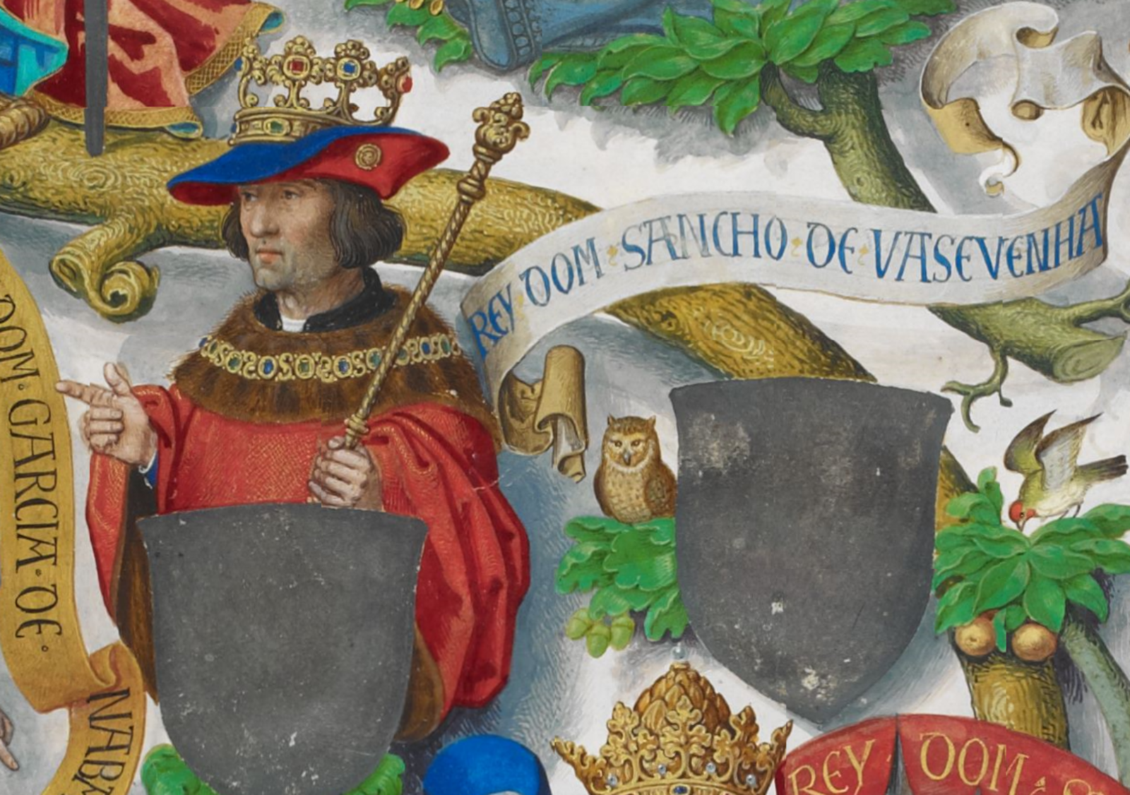 Sancho VI William, Duke of Gascony